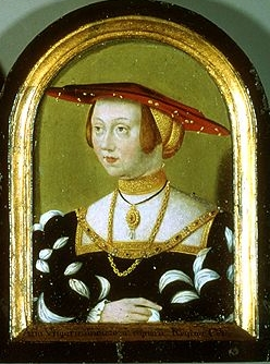 Anna Jagiellonka Queen of Bohemia and Hungary, anonymous painting from XVI century